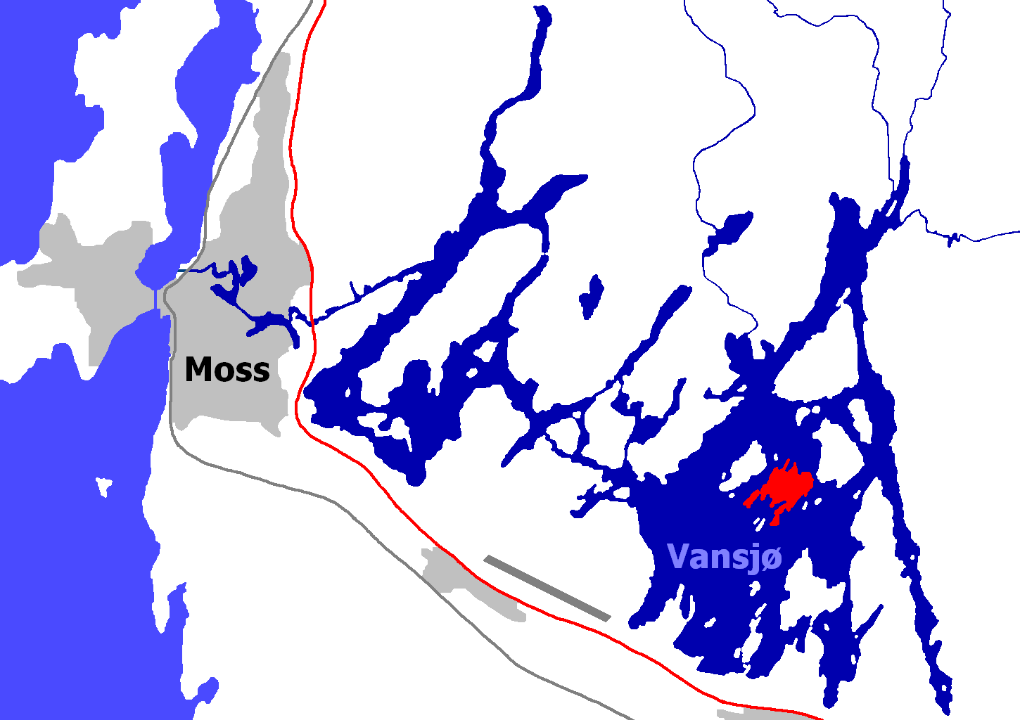 Map of the lake Vansjø. The island of Østenrødøya in red. Created by JohnM 21:41, 20 May 2006 (UTC)